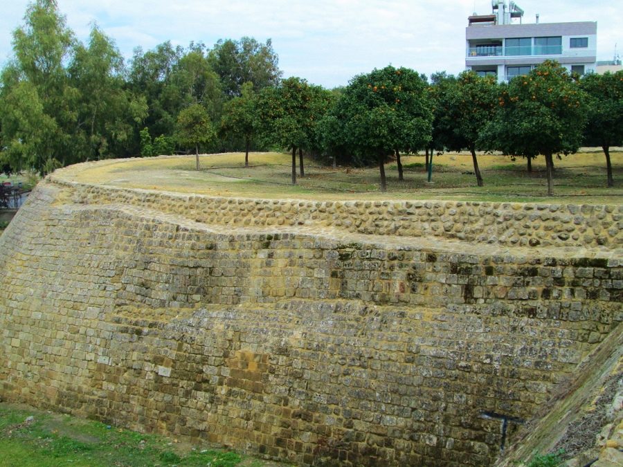 Venetian historic walls and gardens Nicosia Republic of Cyprus